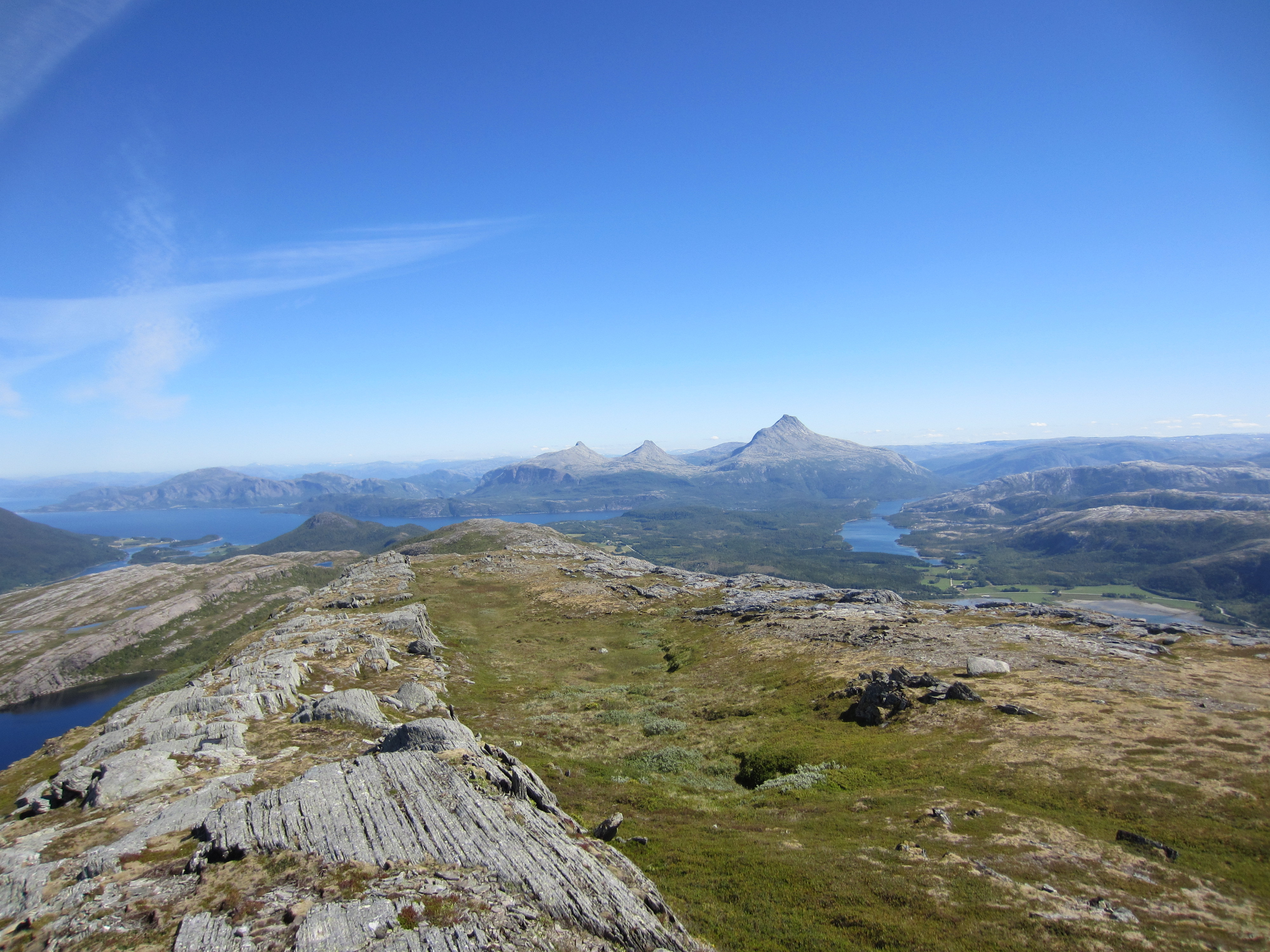 Photography of Bindal municipality in Norway, showing some of the landmarks, including Heilhornet (the large mountain in the centre-right part of the photo). Photo taken from Tyskenghatten.